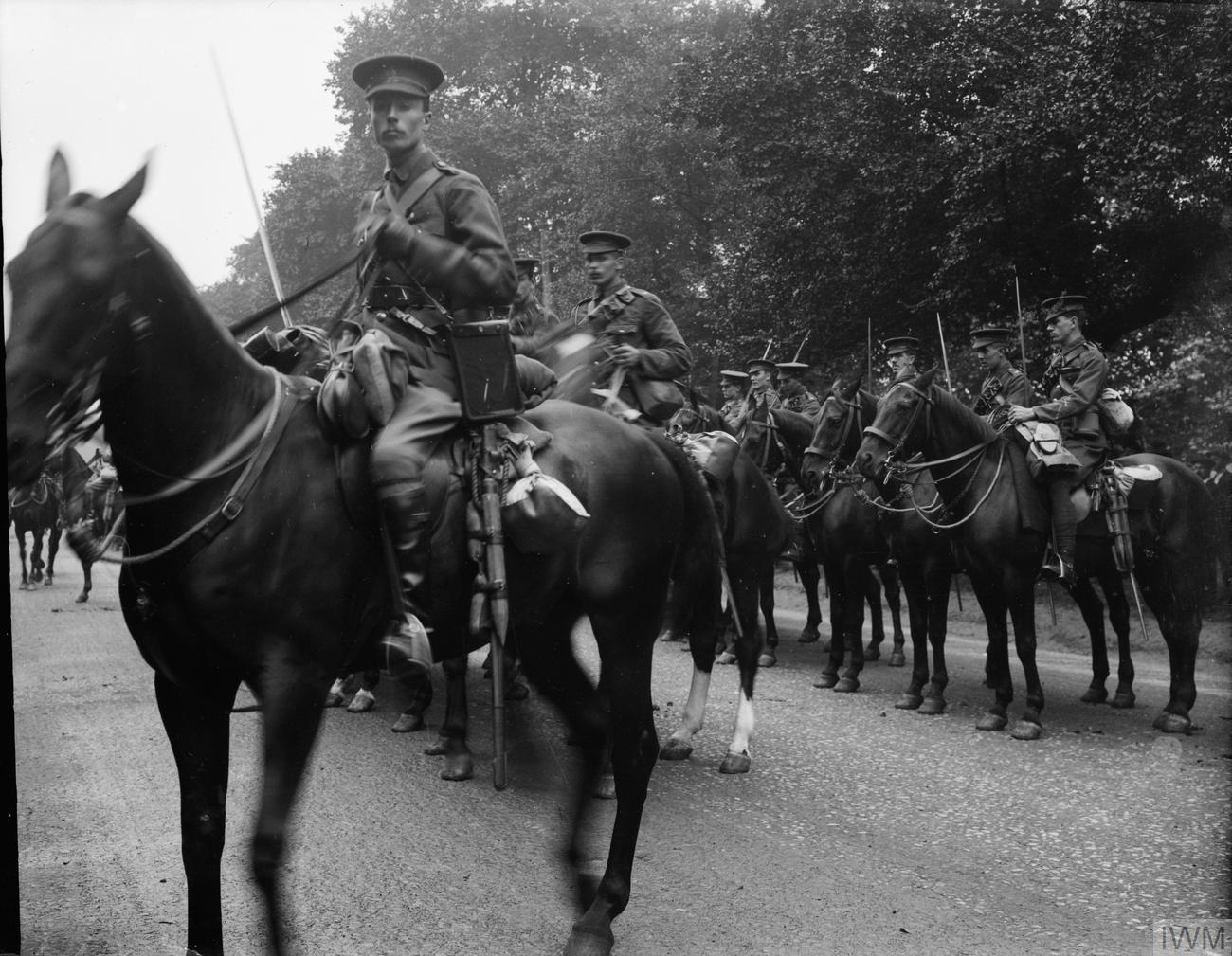 A mounted cavalry draft of the 1st Life Guards with Captain Gerrard Leigh in the foreground.